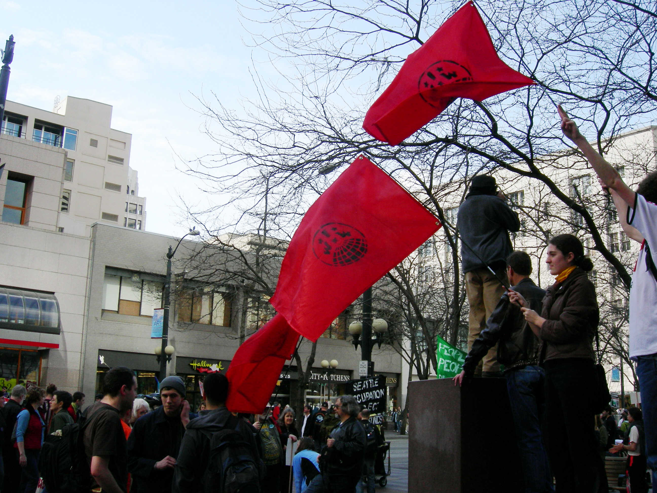 Anti-war demonstration in Seattle, Washington. 18 March 2007. IWW flags.